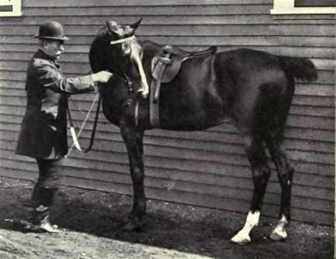 FLEXION OF THE NECK BY THE SNAFFLE AND OF THE LOWER JAW BY THE CURB BIT. Illustrations from File:Equitation.djvu, see details; see too File:Equitation_images.djvu where the same images are bundled into a single djvu file